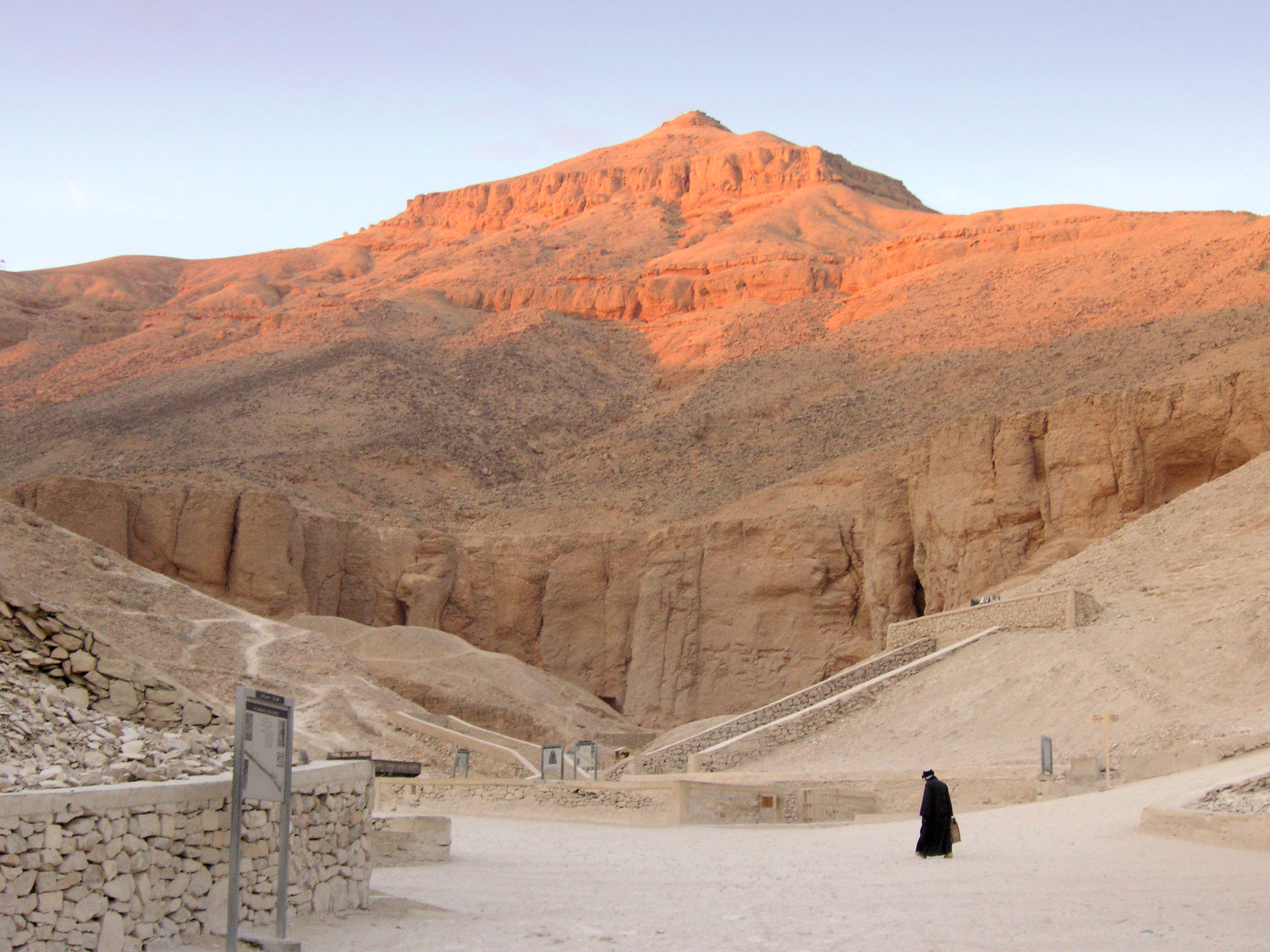 Valley of the Kings near Luxor, Egypt.